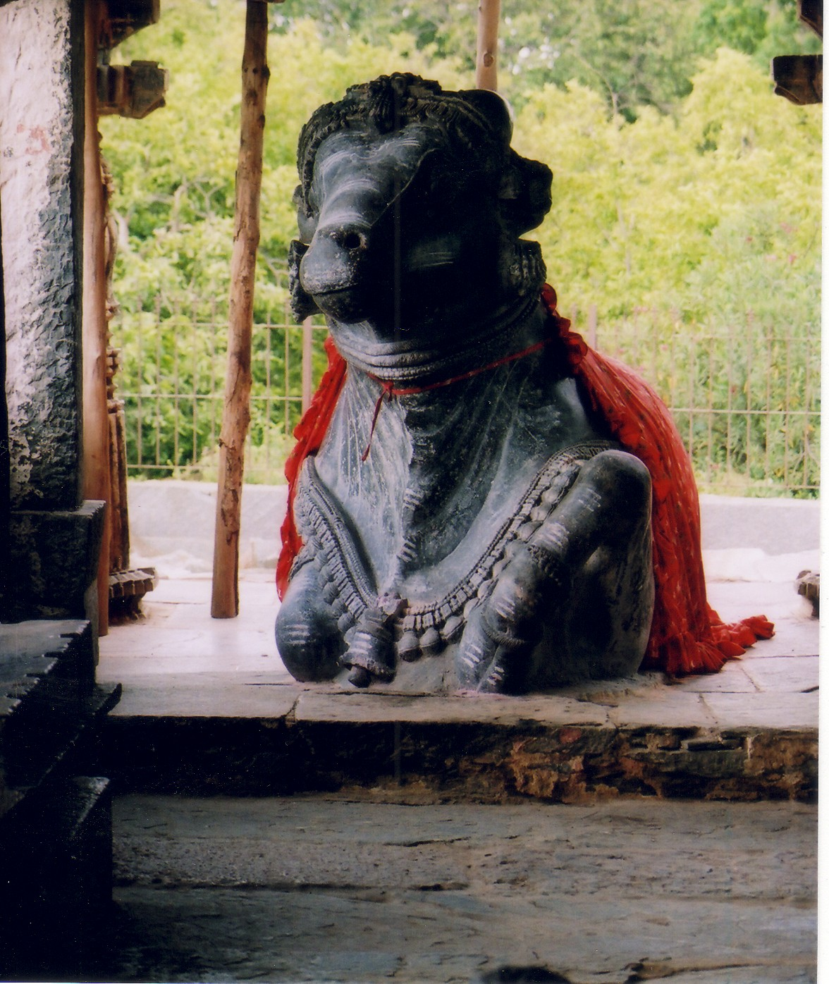 This image was taken by me (Dinesh Kannambadi) at the Dodda Basappa Temple in Dambal, Gadag district, Karnataka state, India